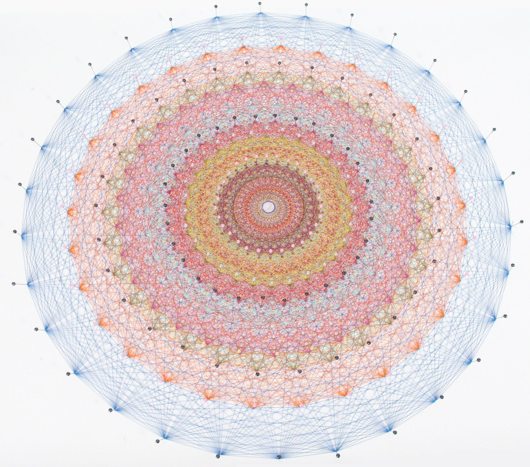 Root system of E8 made by hand with thread, based on the famous computer picture by John Stembridge.